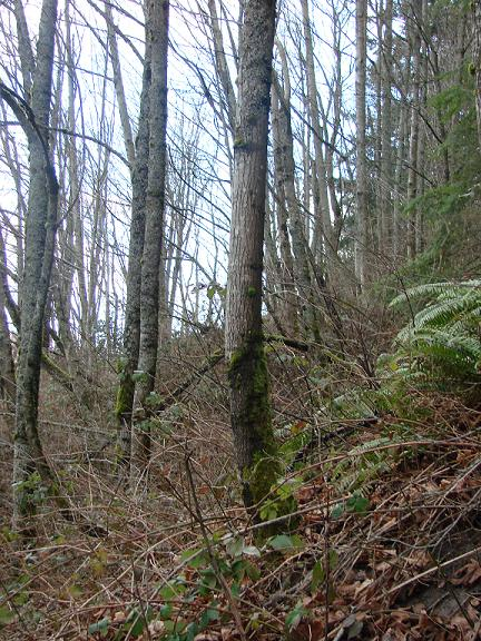 These trees you can see are bent down towards their bottom and then are standing straight towards the top. They are bending in the direction of movement of the hillside offering a sign of evidence of downhill creep and movement along the slope. (Photo taken at Western Washington University Bellingham, WA)